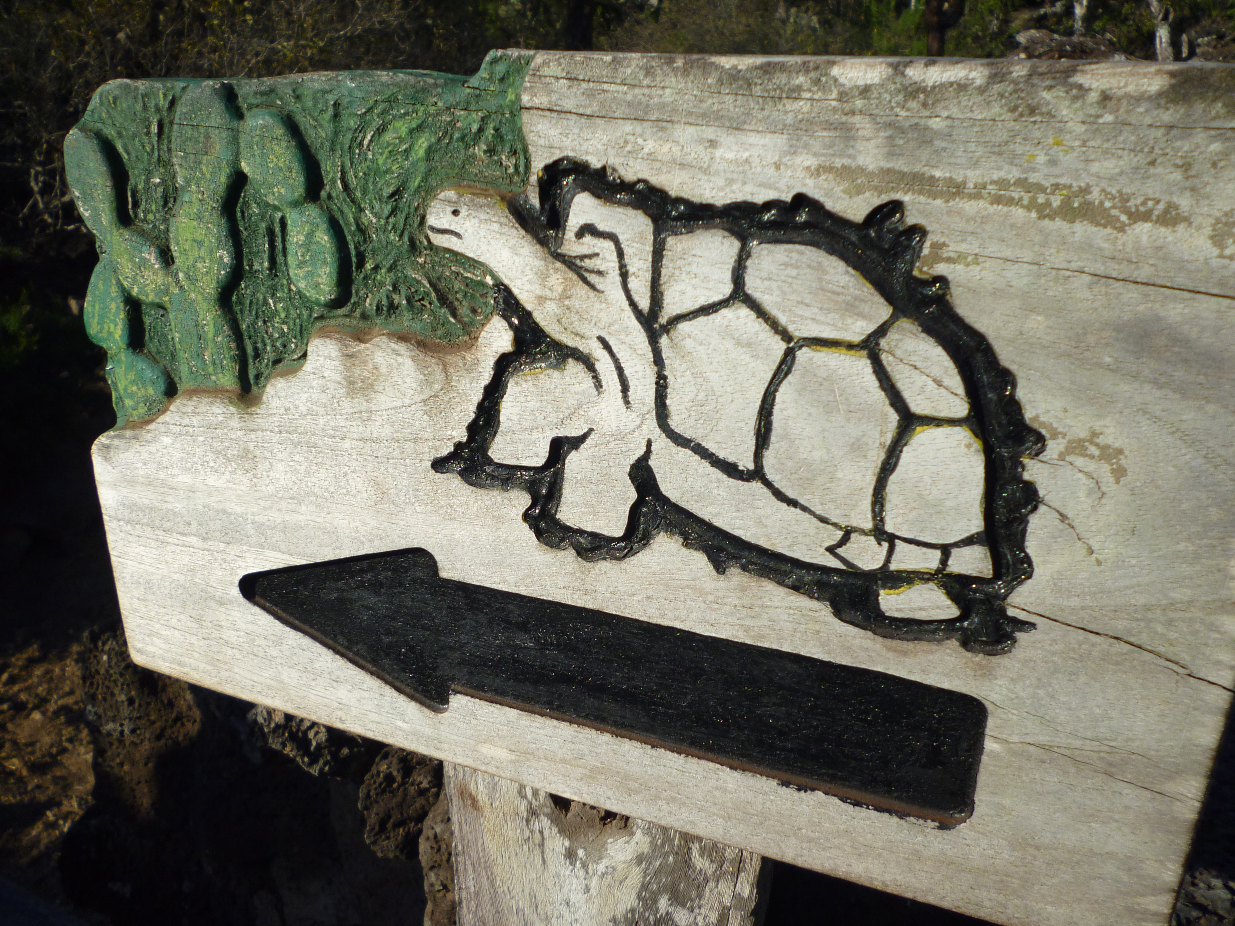 Charles Darwin Research Station direction sign for a tortuga